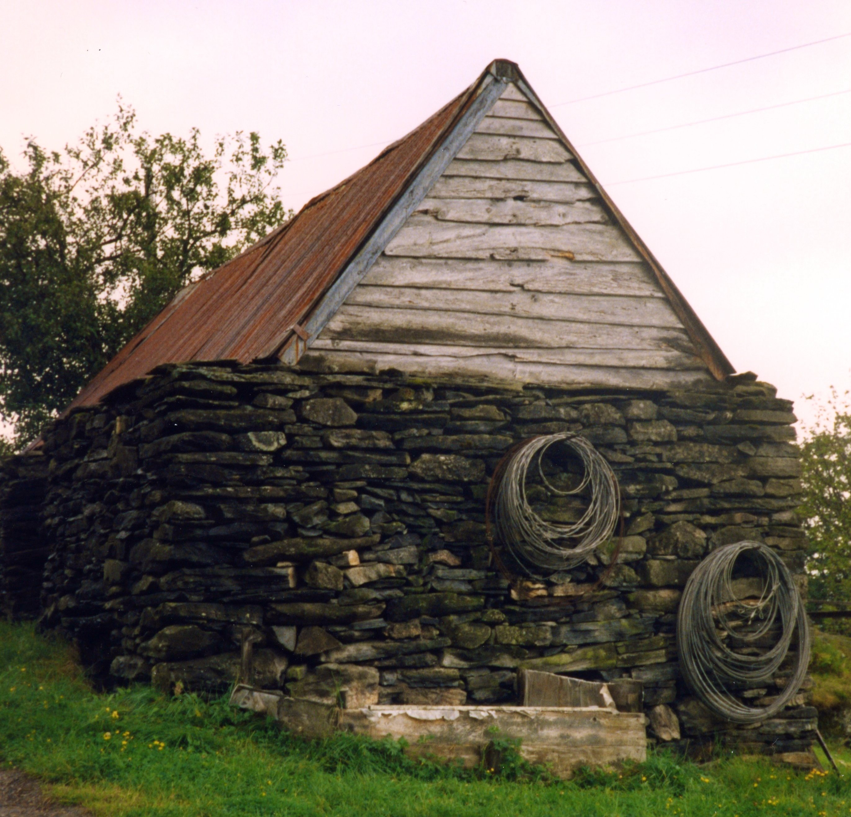 Rise (Gulen) in Gulen municipality, Norway.